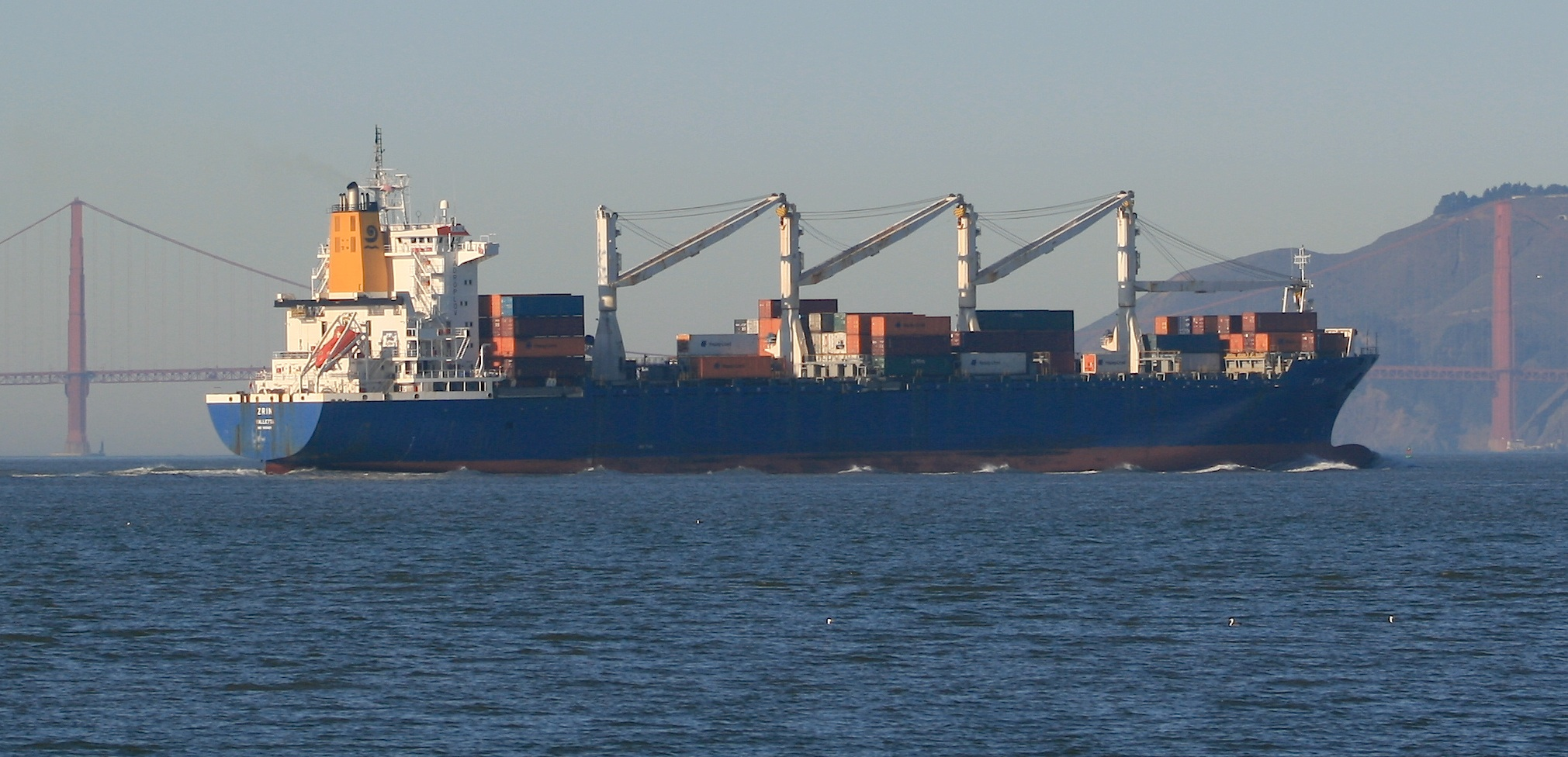 M.S. Zrin, lightly loaded, passes Treasure Island in San Francisco Bay IMO Number: 9005429 MMSI Number: 248824000 Callsign: 9HSV6 Length: 201 m Beam: 32 m